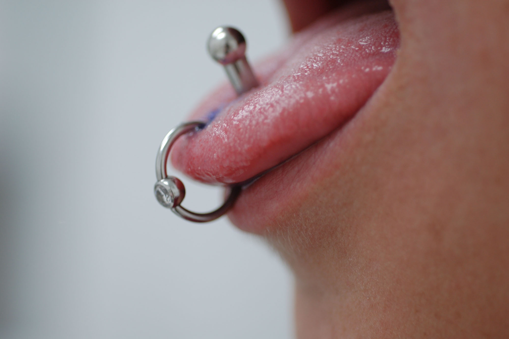 Tongue piercing